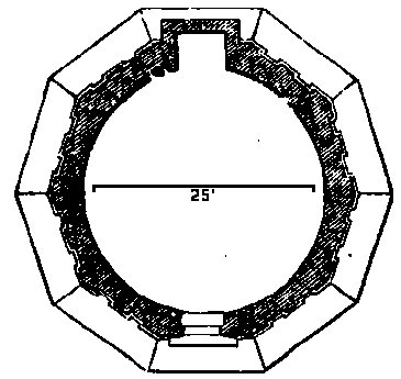 Plan of Tomb of Theodoric